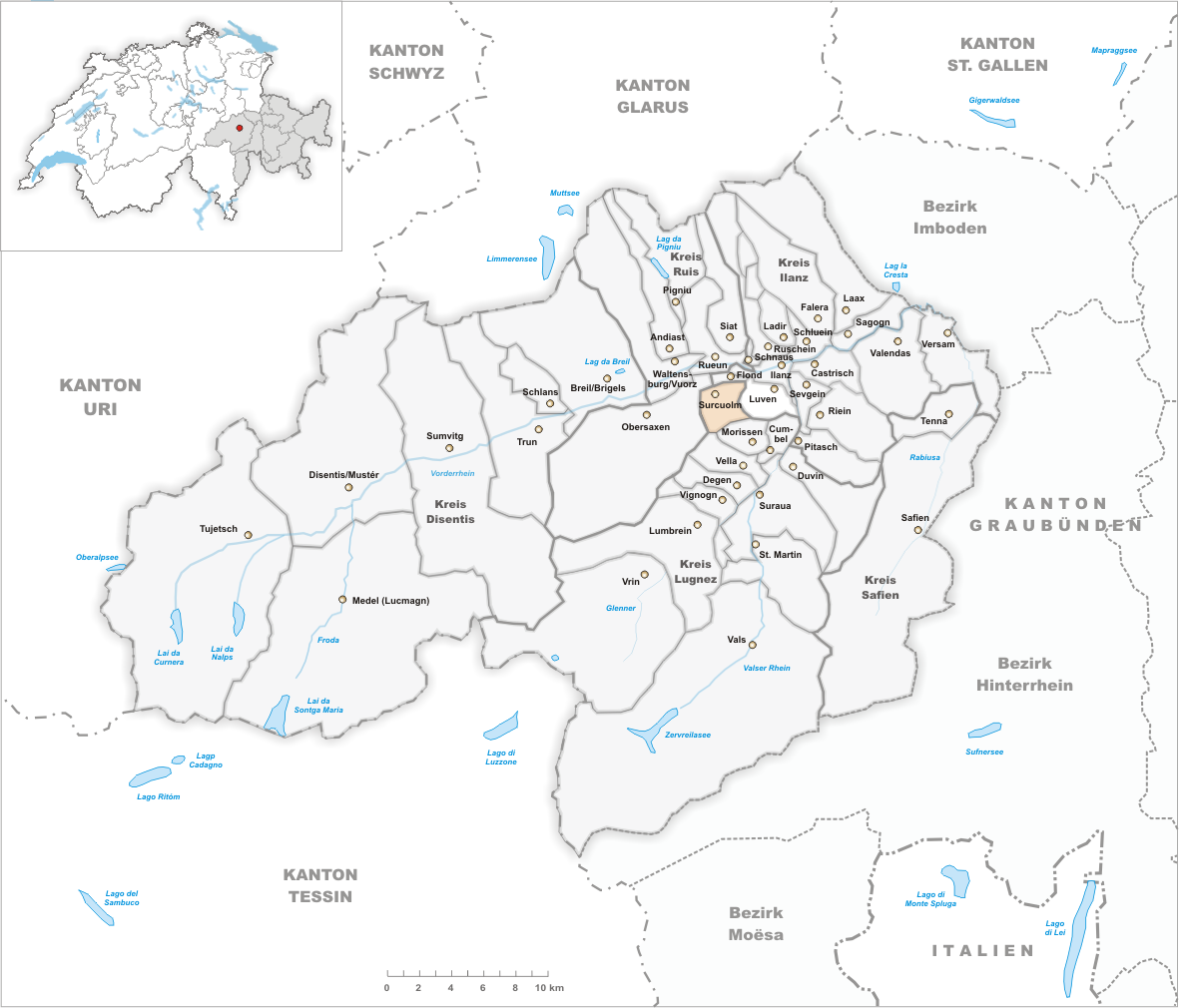 Municipality Surcuolm